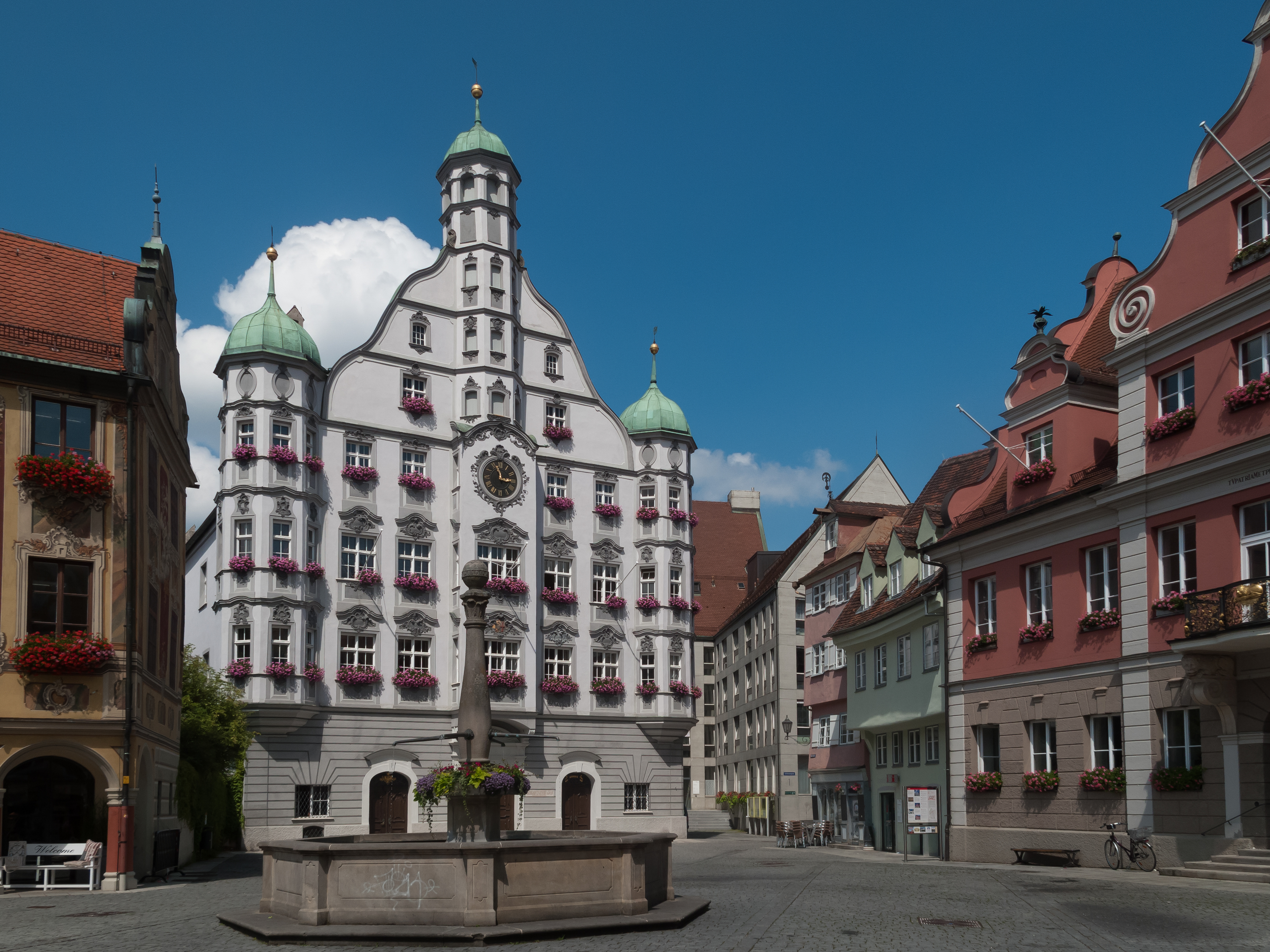 Memmingen, townhallThis is a photograph of an architectural monument.